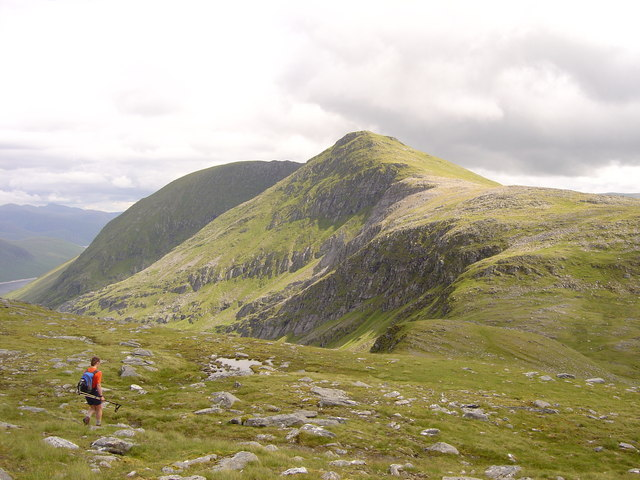 Lurg Mhor from Bidean a Choire sheasgaich The remotest munro?